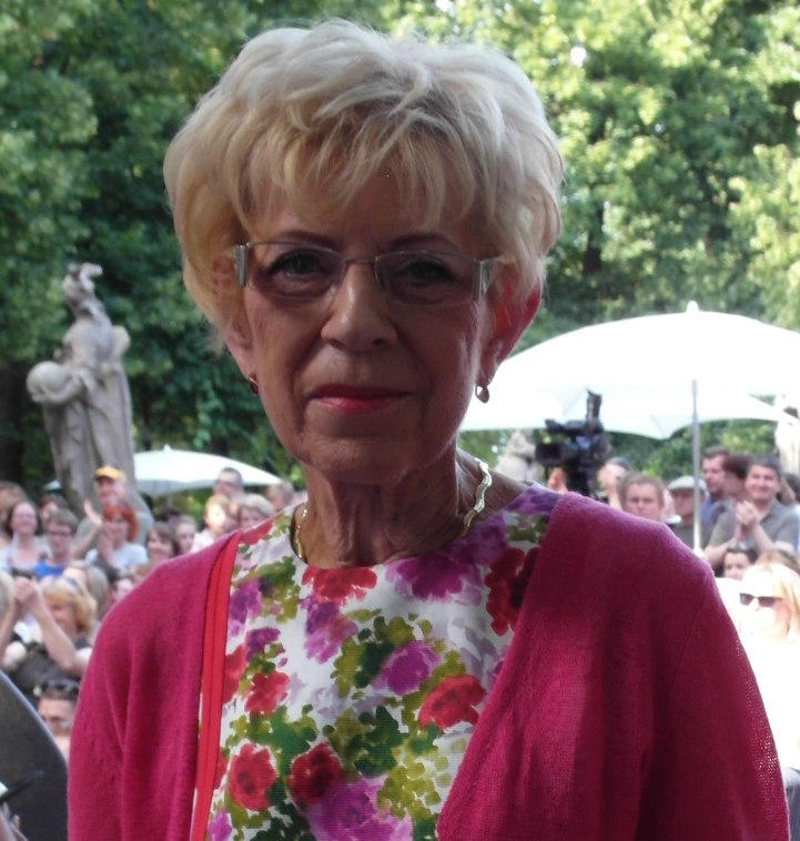 Janina Paradowska, 22 czerwca 2013, Imieniny Jana Kochanowskiego, Ogród Saski, Śródmieście Północne, Warszawa, Polska.